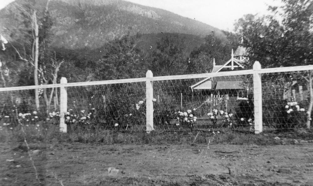 Maroon School, circa 1900-1910, The original building erected in 1891 had been enlarged and the bell-tower added. The tower was built by Fred Cook Senior.